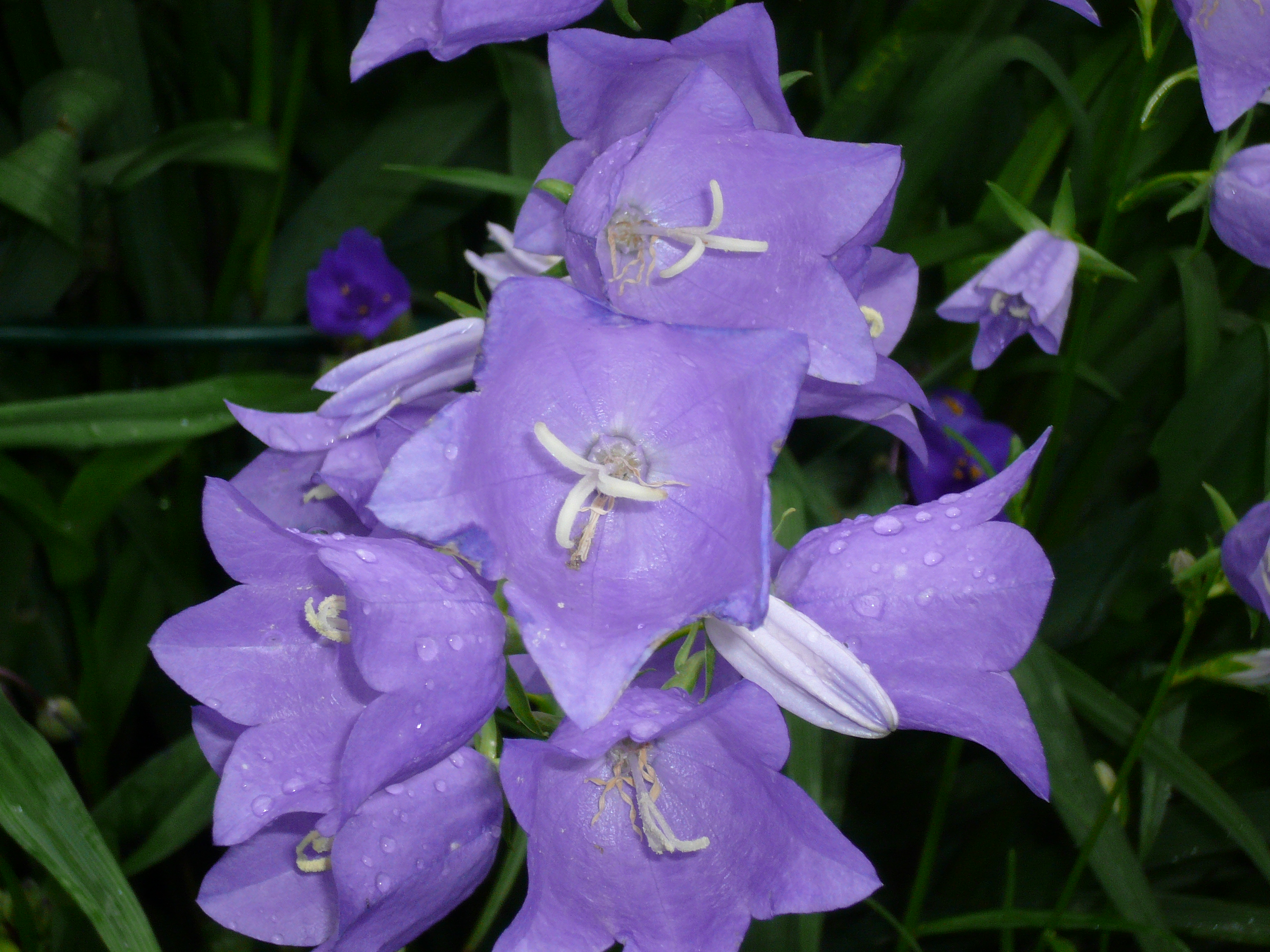 Eine Glockenblume (Campanula sp.) This is definetely NOT C. rotundifolia (as the filename indicates). Possibly C. persicifolia, but not 100% certain.